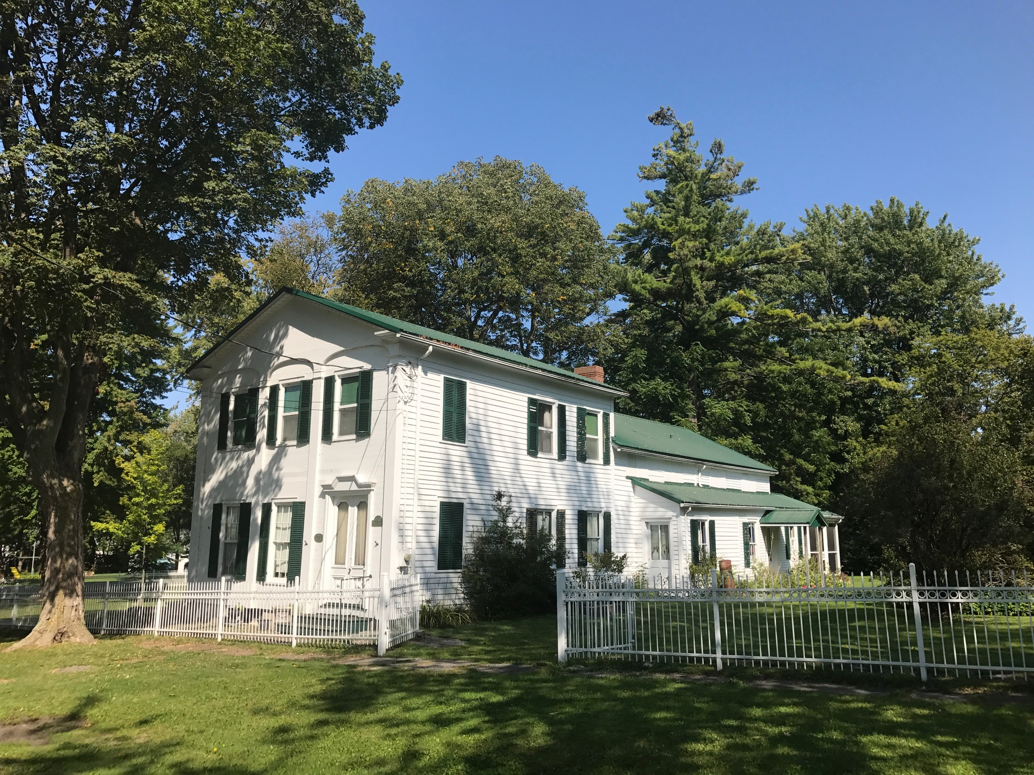 Otis Starkey house in Cape Vincent, New York. South facade.